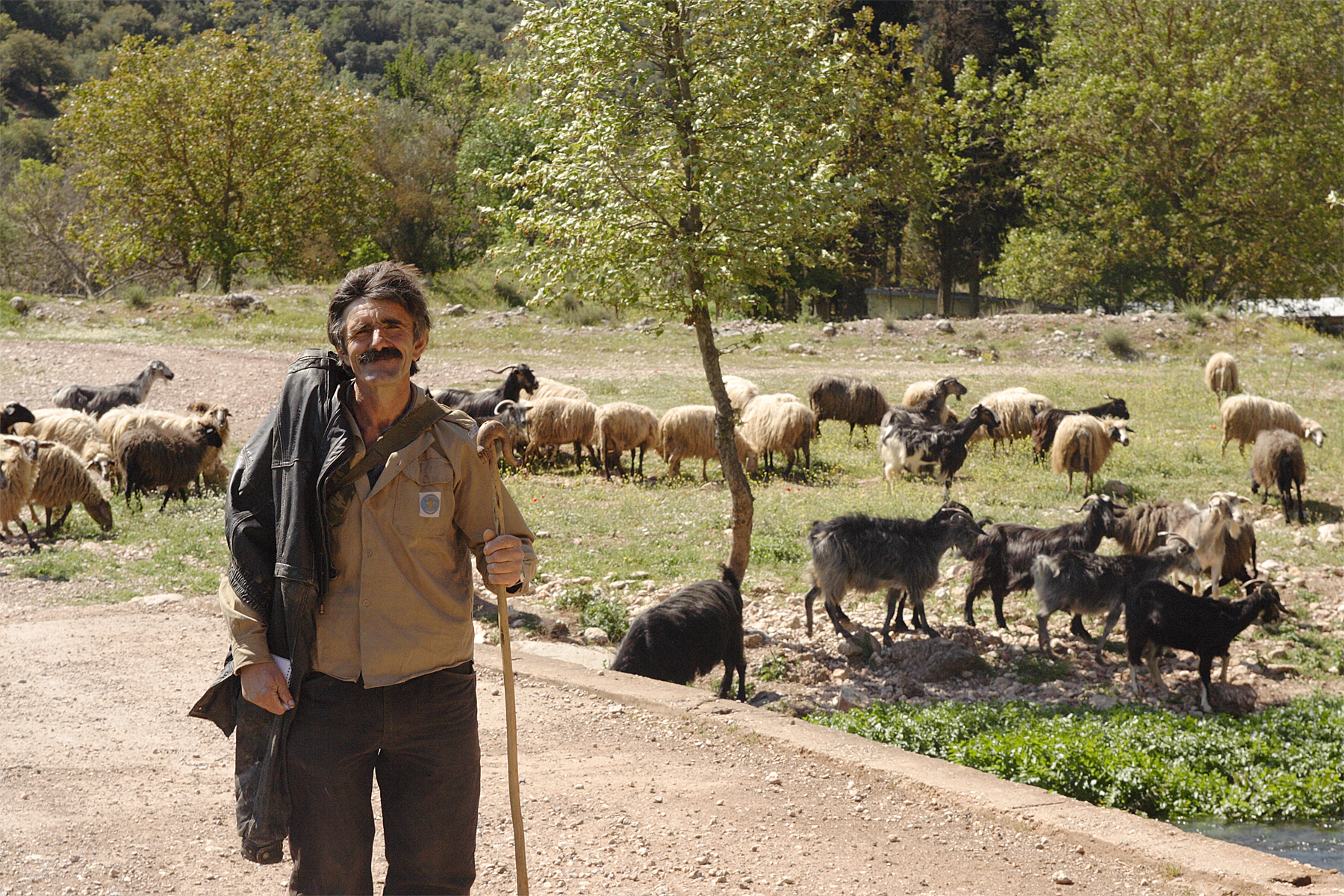 shepherd from Likouria, Achaea, Peloponnese.